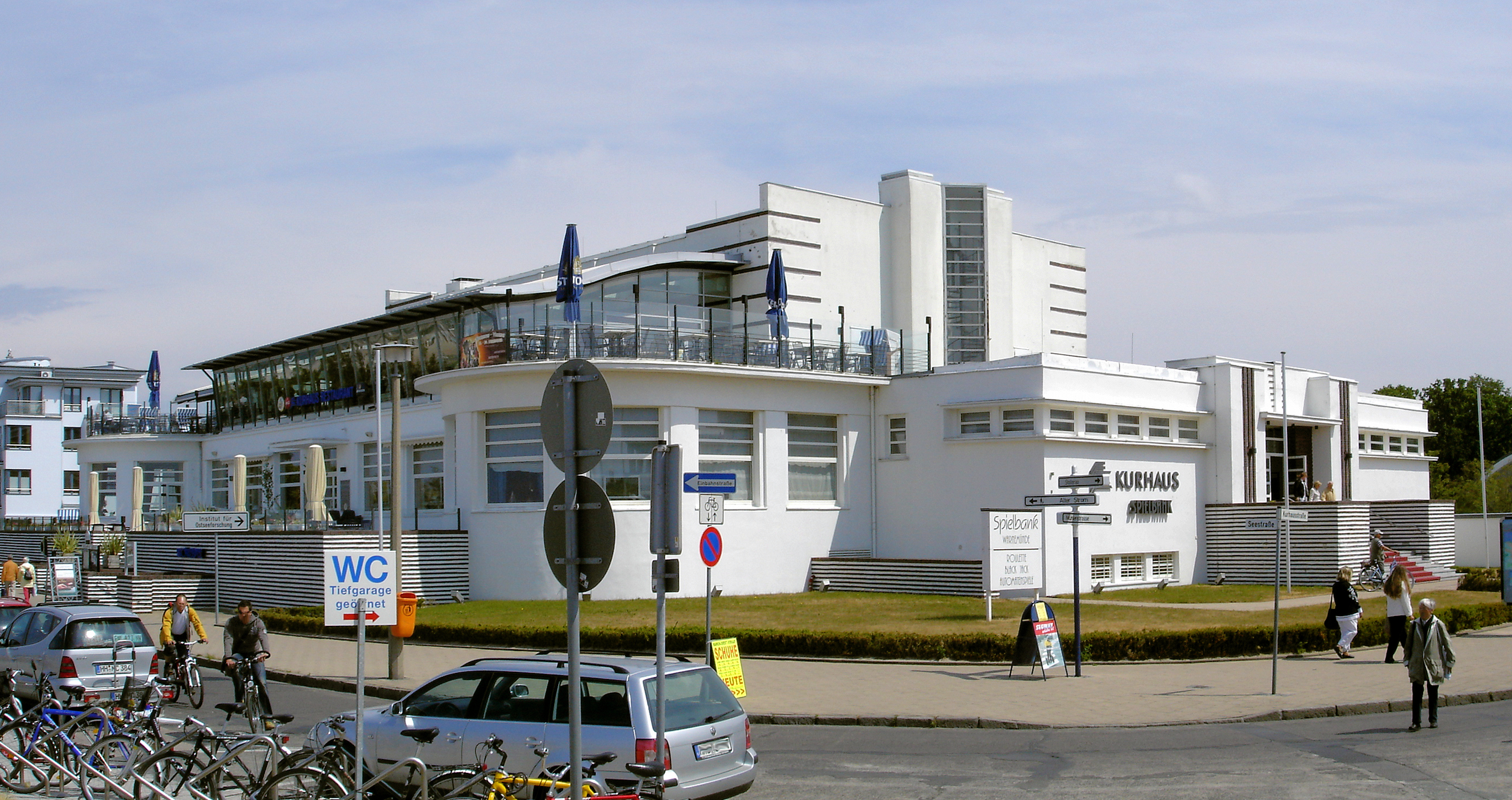 Kurhaus in Warnemünde